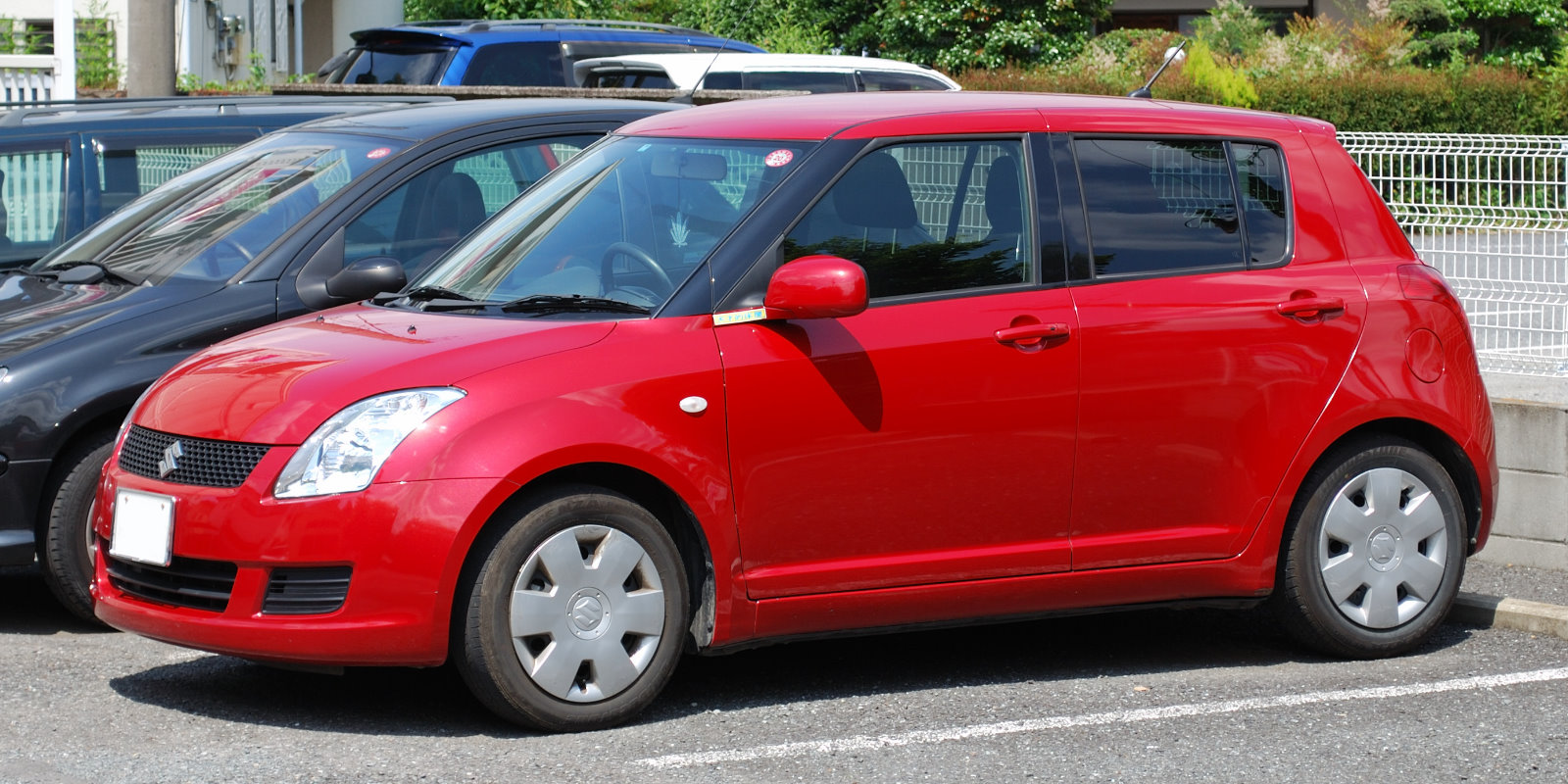 2nd Generation Suzuki Swift (2007/5 - )